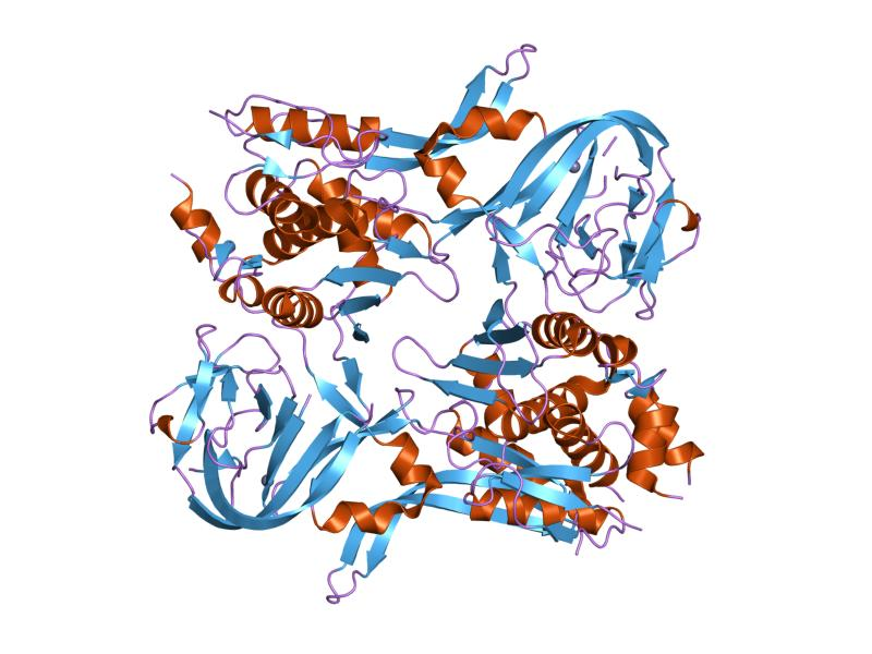 Cartoon representation of the molecular structure of protein registered with 1ef0 code.